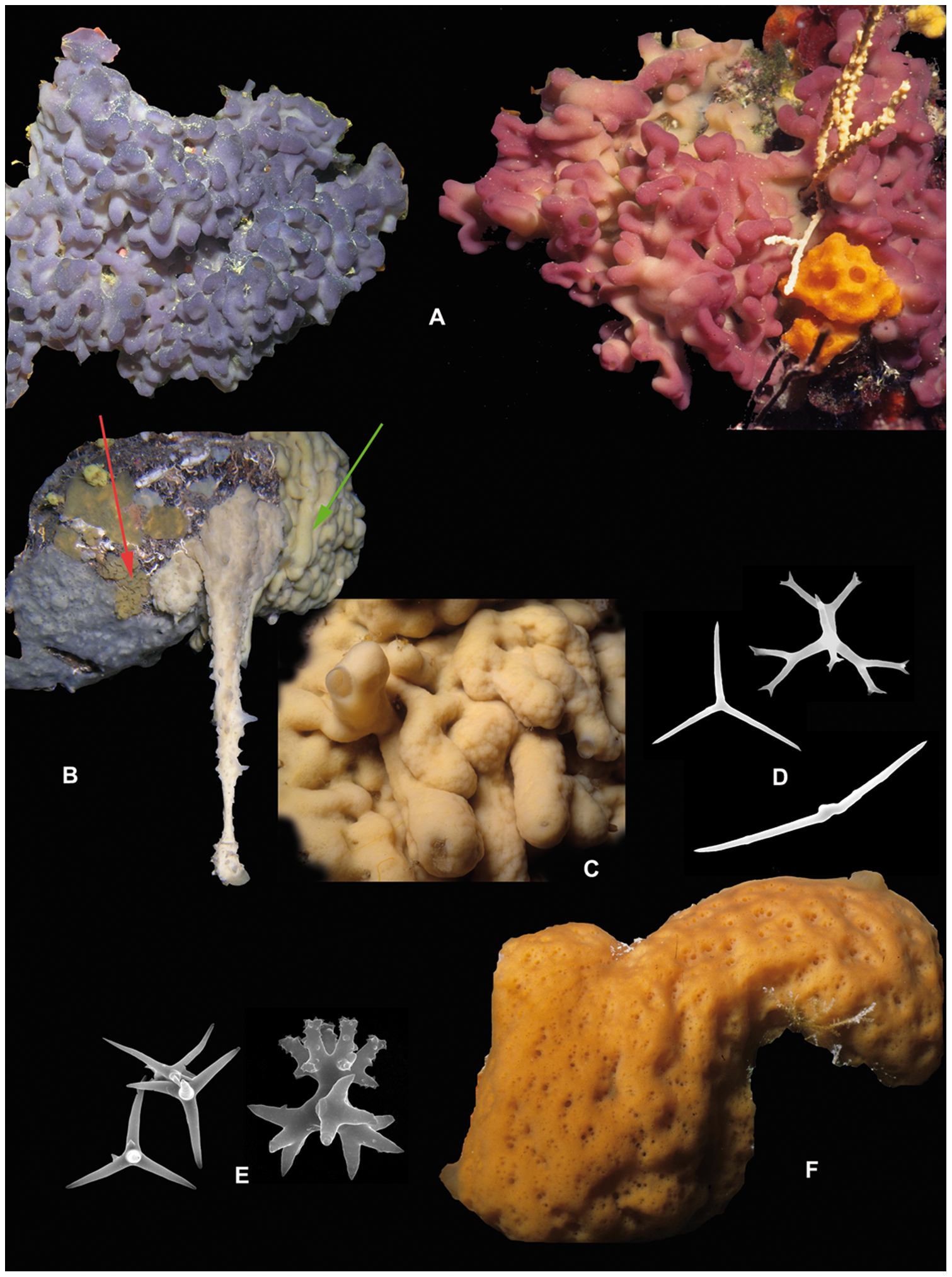 A. Oscarella lobularis (Oscarellidae): two color morphs from NW Mediterranean Sea (photos courtesy of Jean Vacelet & Thierry Pérez); B. Plakortis simplex (Plakinidae) specimen hanging from the ceiling of the 3PPs cave (NW Mediterranean Sea), a paradise for Homoscleromorpha species (at least 8 species belonging to 4 different genera are present); red arrow indicates the presence of Oscarella microlobata and a green arrow Plakina jani (photo courtesy Thierry Pérez); C. Plakina jani (Plakinidae) detail of the lobes, 3PPs cave (NW Mediterranean Sea) (photo courtesy Jean Vacelet); D. Spicules of Plakinidae: triods, diods and lophose calthrops; E. Spicules of Corticium candelabrum (Plakinidae): calthrops and candelabrum (heterolophose calthrops); F. Corticium candelabrum NW Mediterranean Sea (photos courtesy of Jean Vacelet).